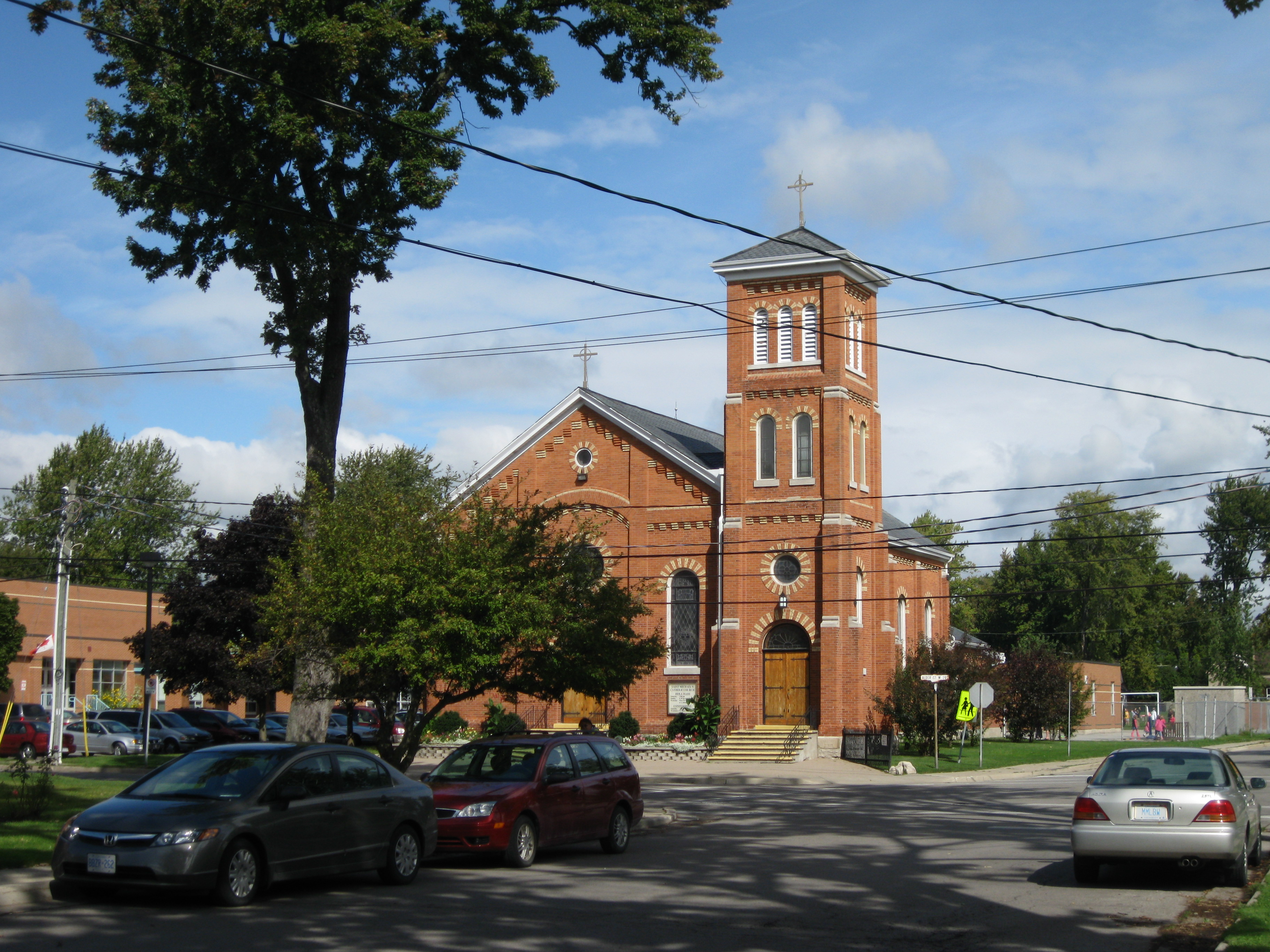 Saint Michael's Catholic church, Dunnville, Ontario